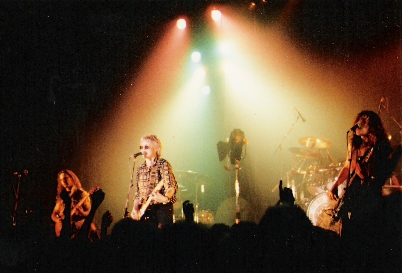 The Cross live in Neu Isenburg, Germany